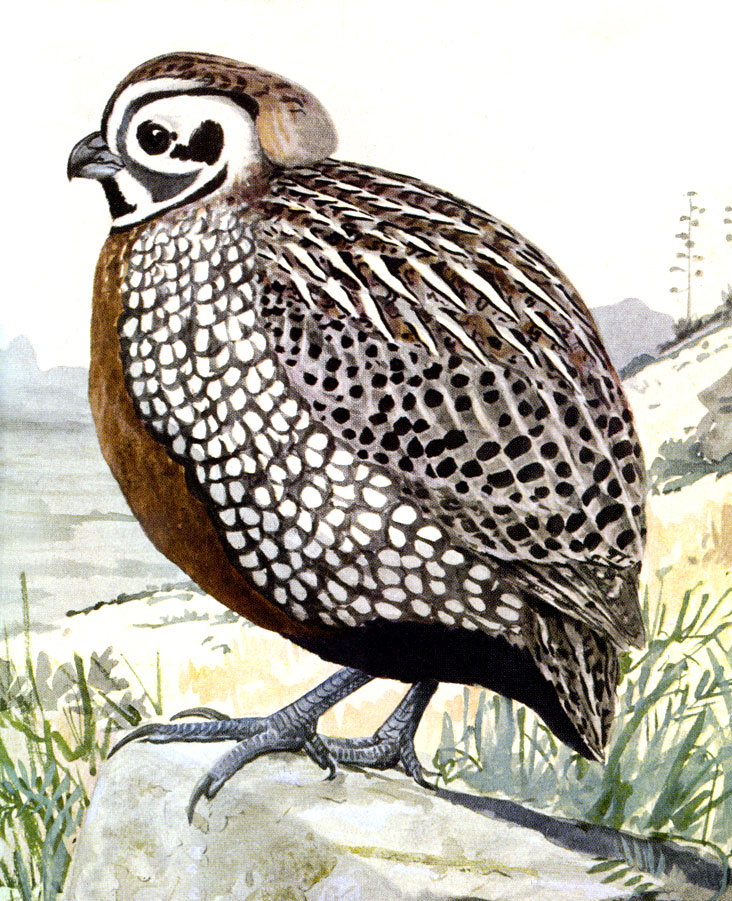 Montezuma Quail, Cyrtonyx montezumae, offset reproduction of watercolor